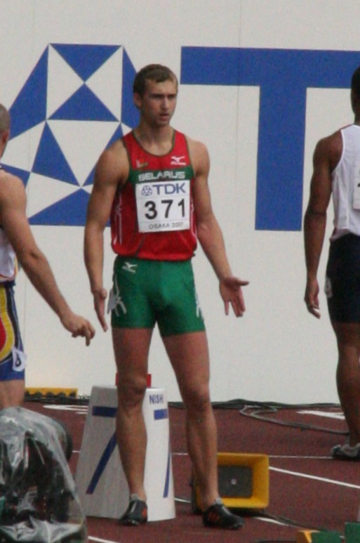 World Athletics Championships 2007 in Osaka - Byelorussion Decathlete Andrei Krauchanka as he is getting disqualified from the 100 metres for repeated false starts